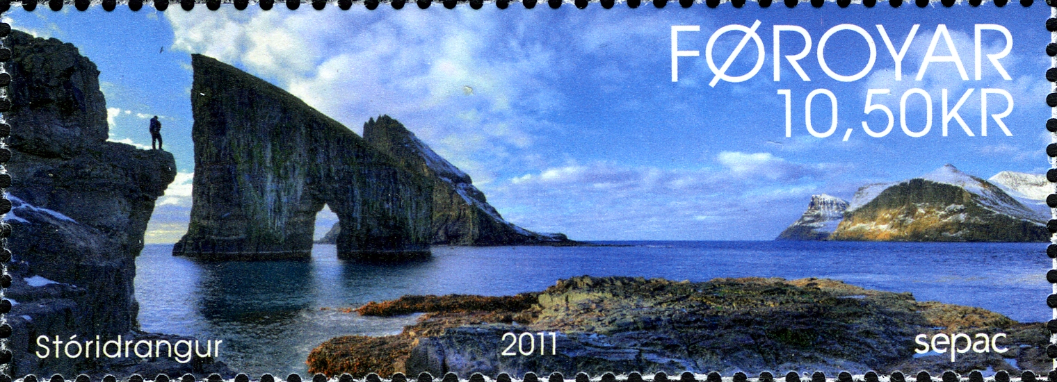 Stamp FO 718 of the Faroe Islands: Landscape (Sepac 2011).